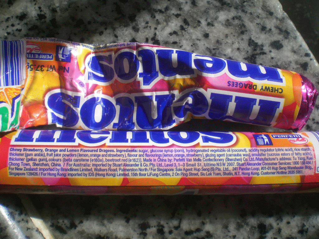 萬樂珠